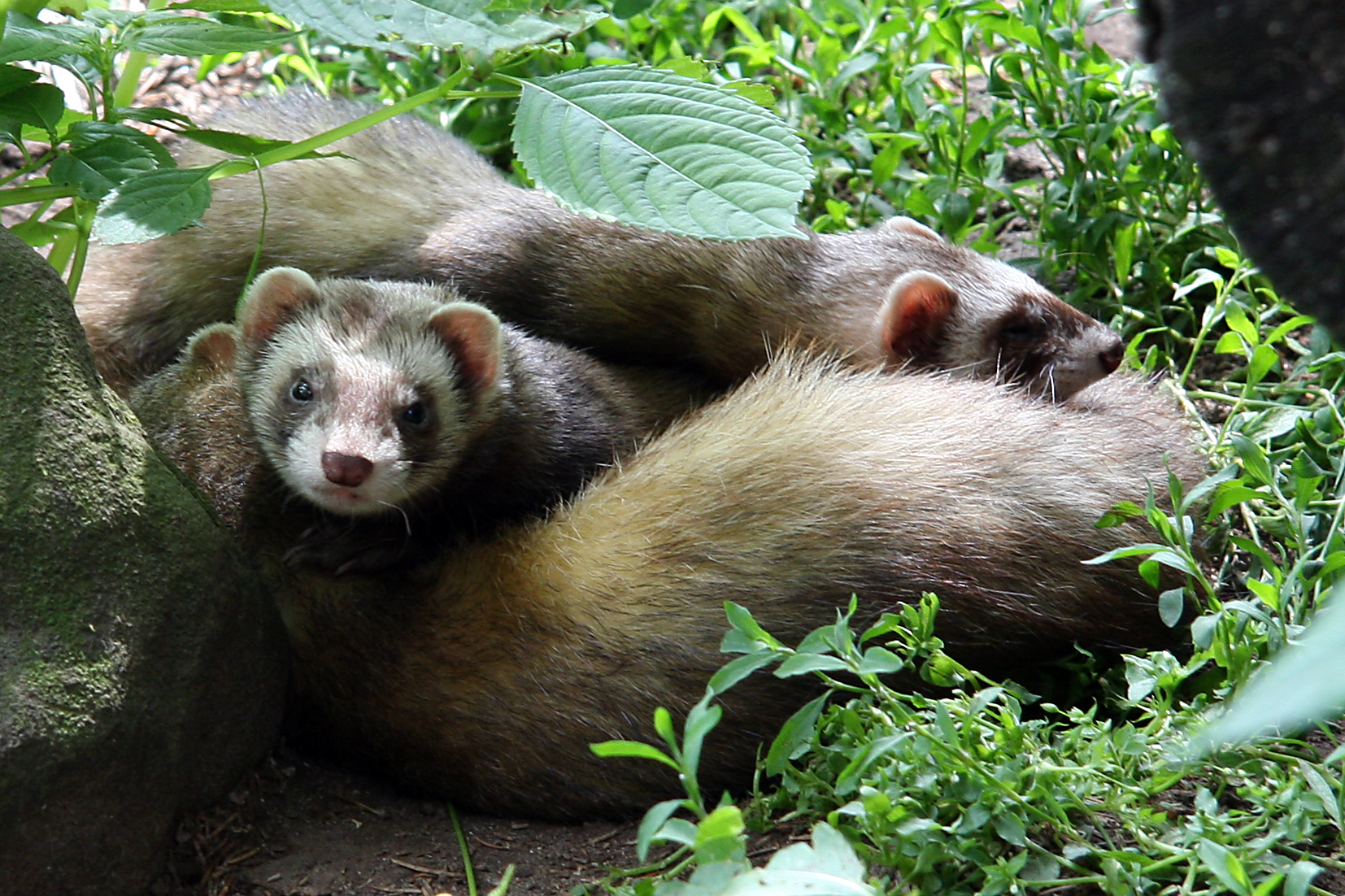 European polecats at a zoo in southern Sweden, Skånes djurpark.